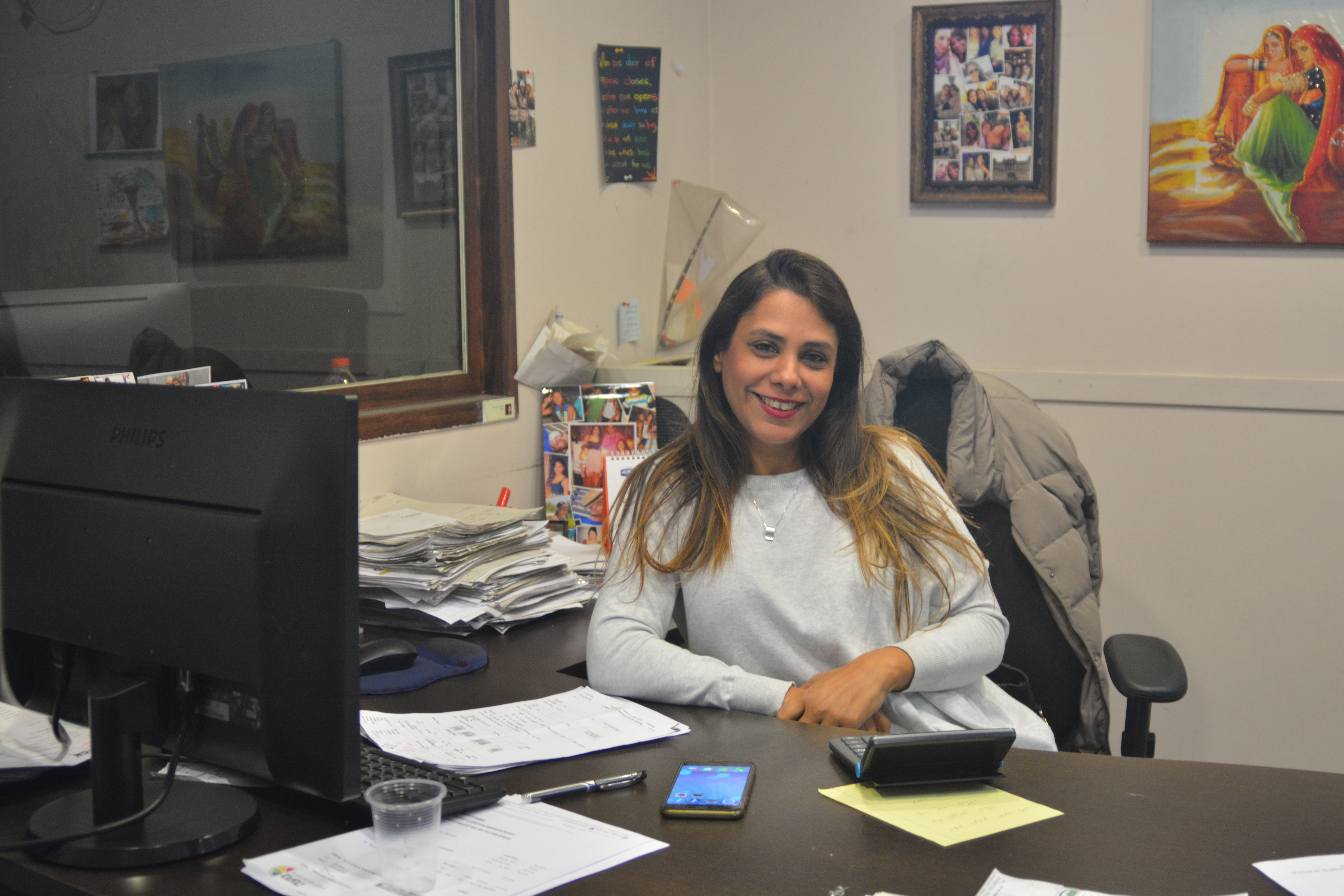 A mannager in her office